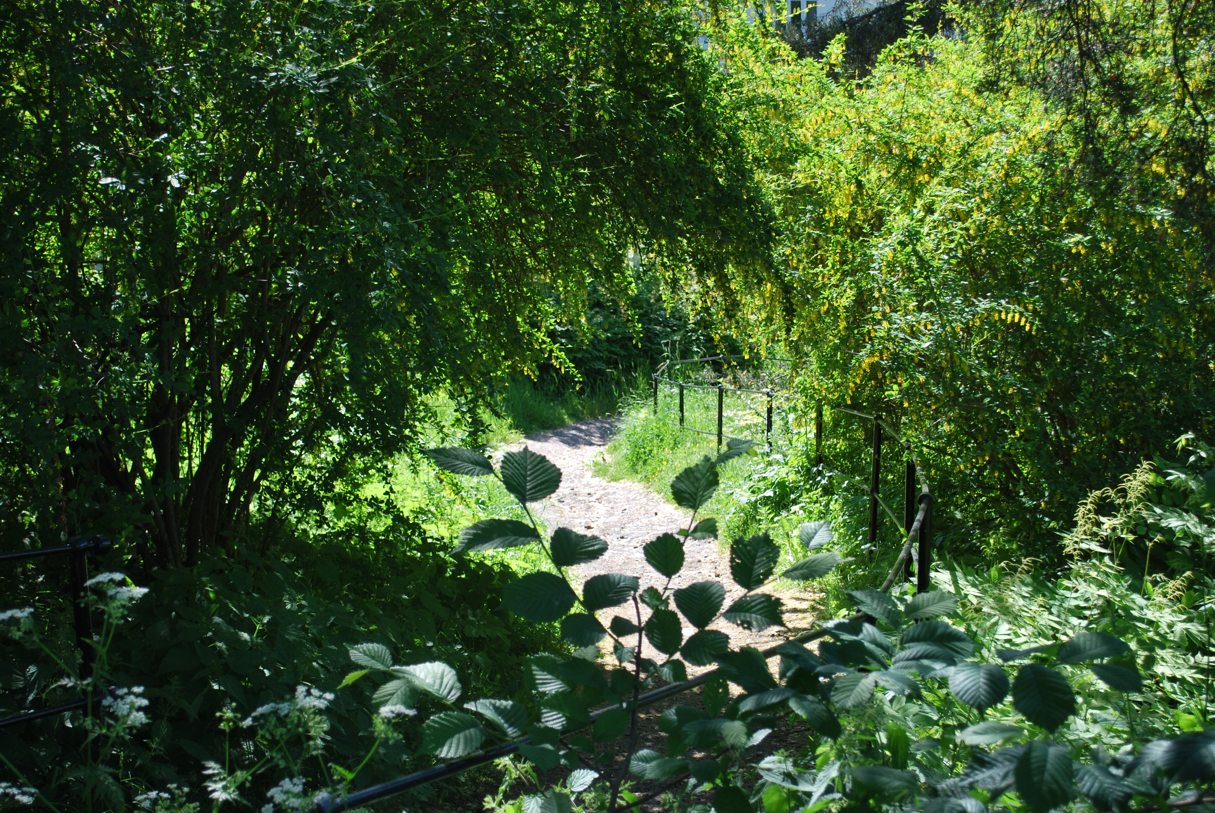 Path in Kværnerparken, Kværner neighbourhood, Oslo